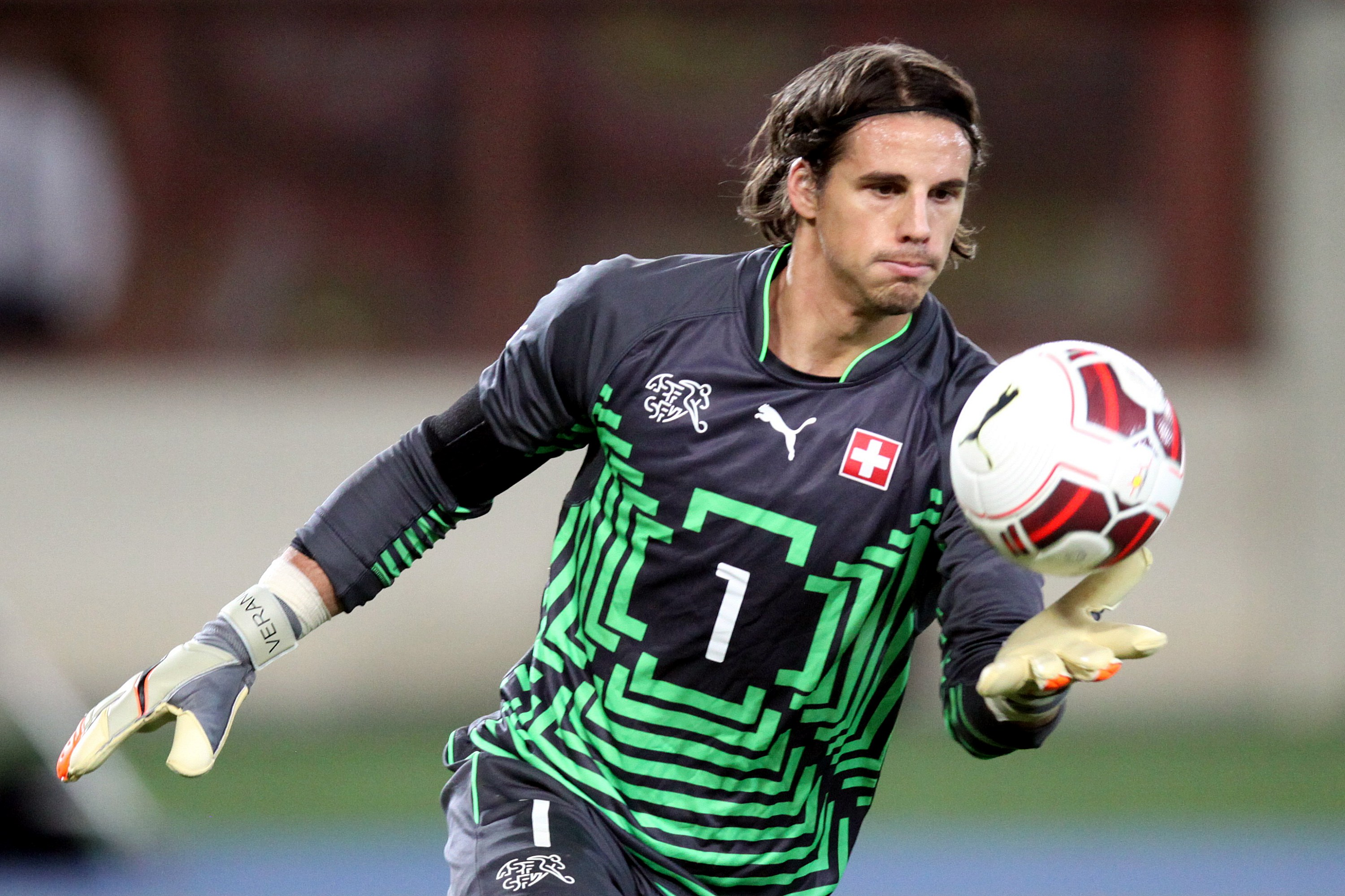 Friendly match – Austria (red shirts) vs. Switzerland (white shirts) 1-2 (1-2) – 2015-11-17 in Vienna, Ernst-Happel-Stadion – The photo shows the goalkeeper of Switzerland Yann Sommer.